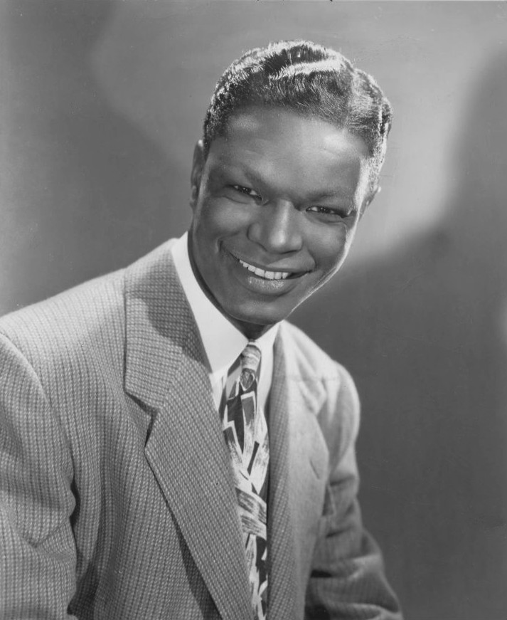 Photo of Nat King Cole in 1947.